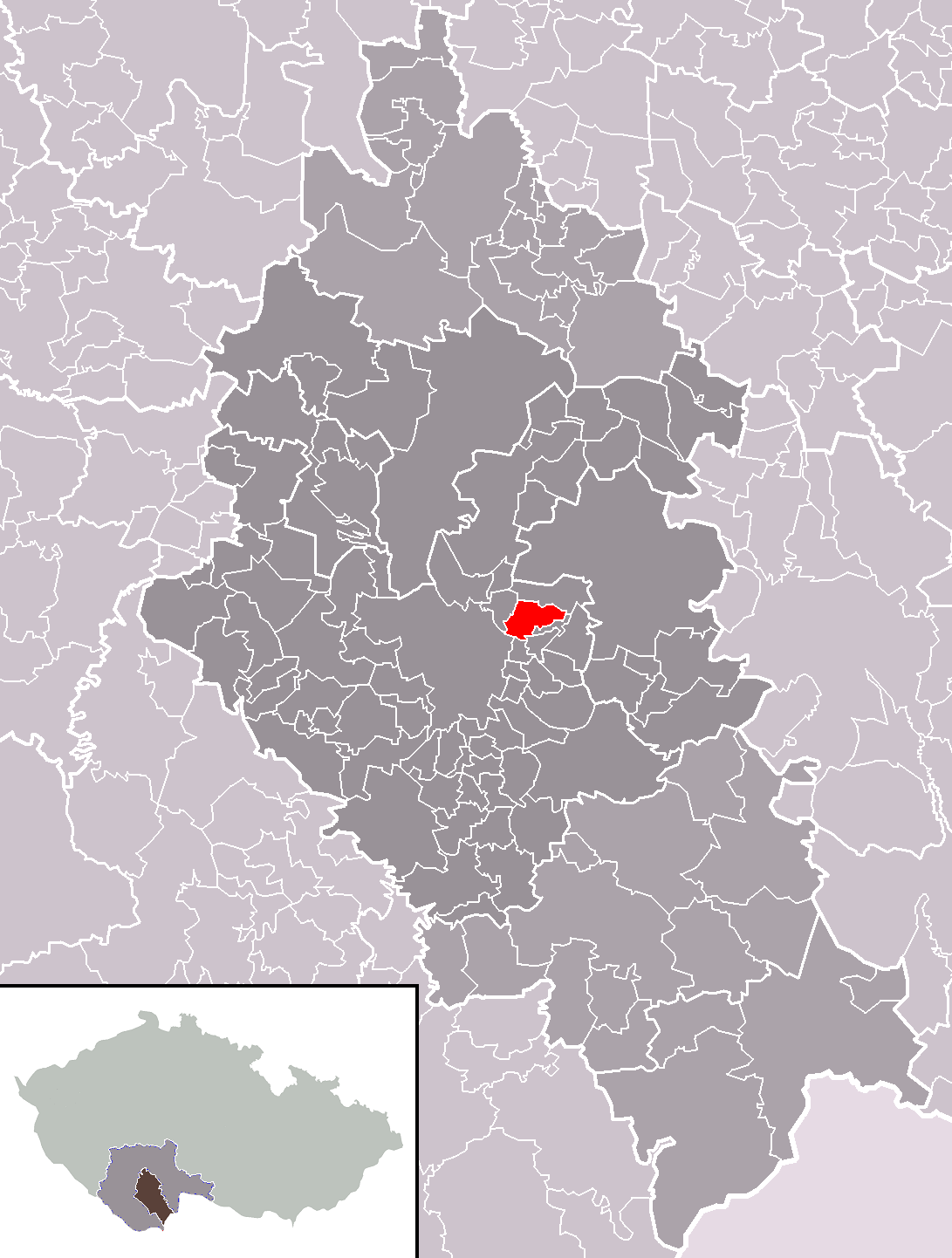 Location of Hůry municipality within České Budějovice District and administrative area of České Budějovice as a Municipality with Extended Competence.